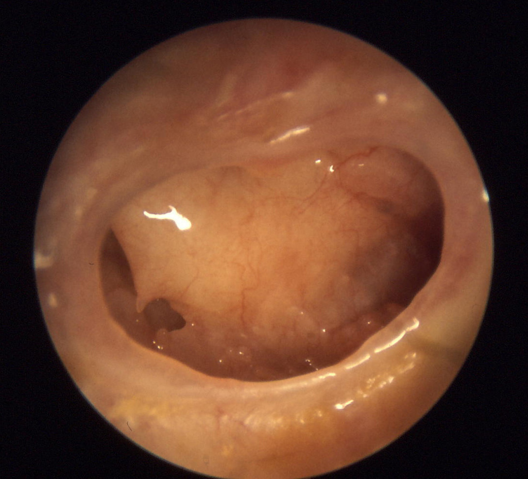 Otitis media chronica mesotympanalis